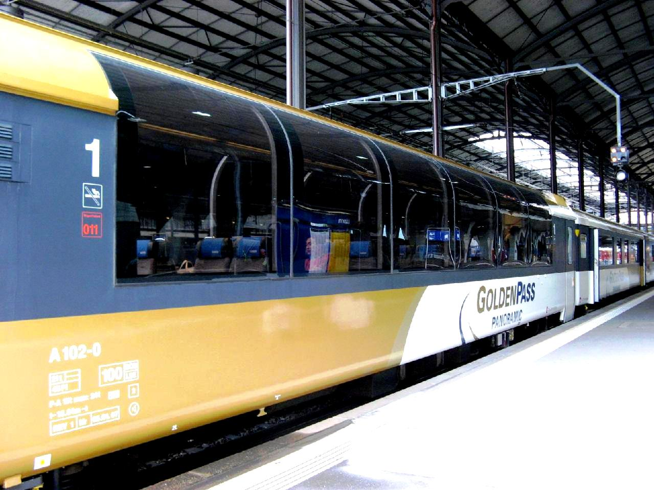 A golden Zentralbahn consist for the Lucerne - Interlaken portion of the Lucerne - Montreux Golden Pass route stands in the Lucerne station hall